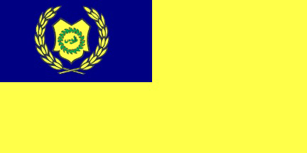 Royal Standard of the Raja Permaisuri of Perlis, Malaysia.